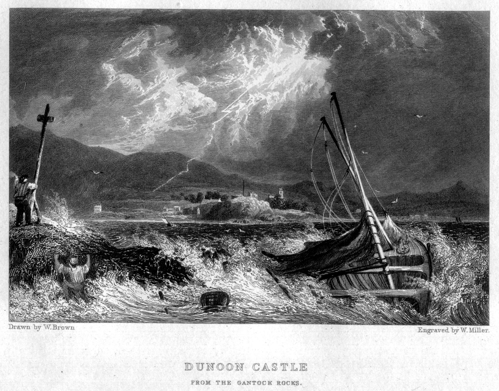 Dunoon Castle, engraving by William Miller after W Brown, published in Select Views Of The Royal Palaces Of Scotland, From Drawings by William Brown, Glasgow; With Illustrative Descriptions Of Their Local Situation, Present Appearance, And Antiquities. John Jamieson. Cadell & Co & Simpkin Marshall, Edinburgh & London 1830